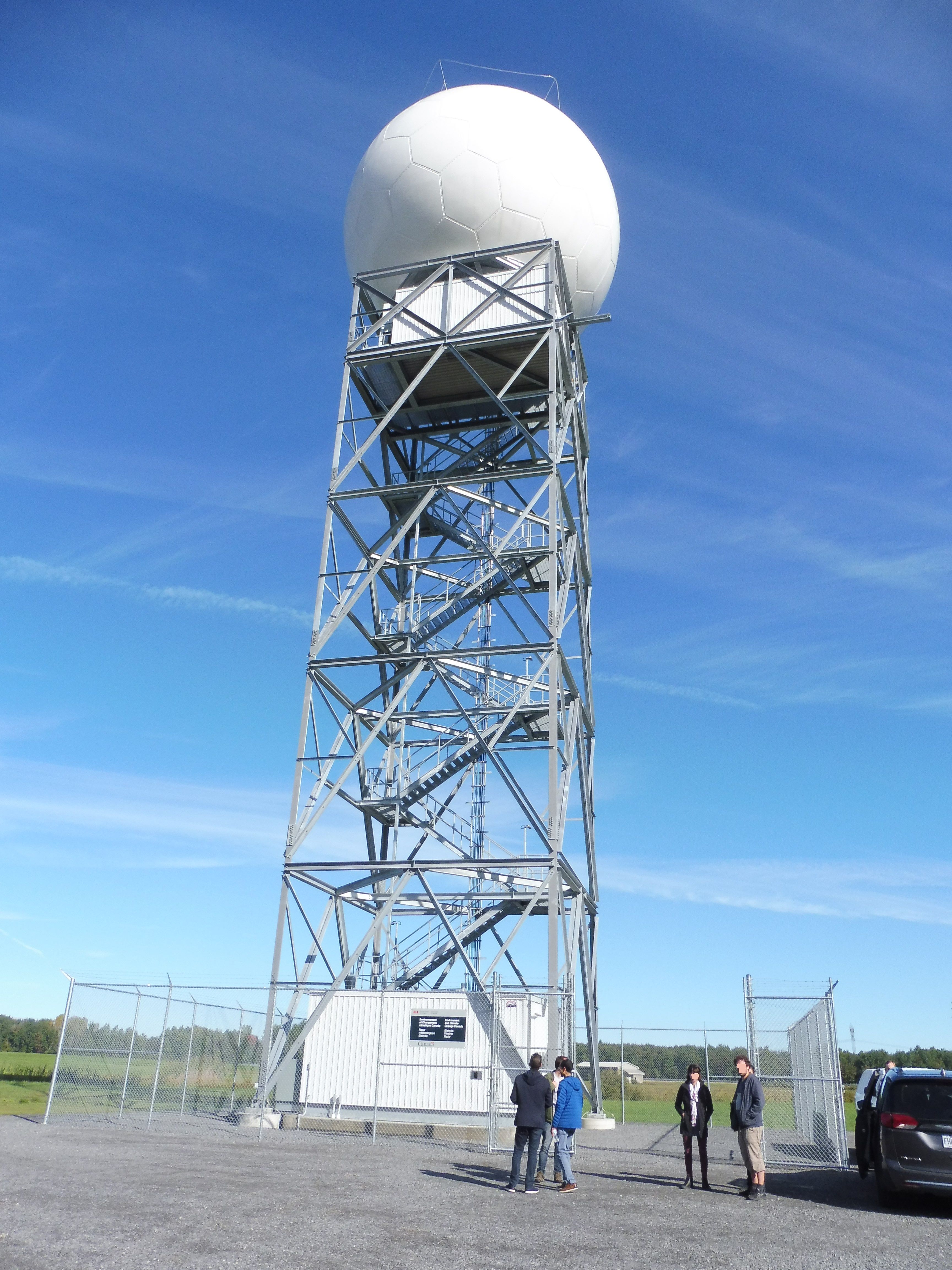 weather radar in S-Band (10 cm wavelength) operated by the Meteorological Service of Canada in Blainville, QC, and commissionned in October 2018. Site Elevation: 72 m above sea level Tower Height: 28 m Feedhorn Height: 33.1 m above ground